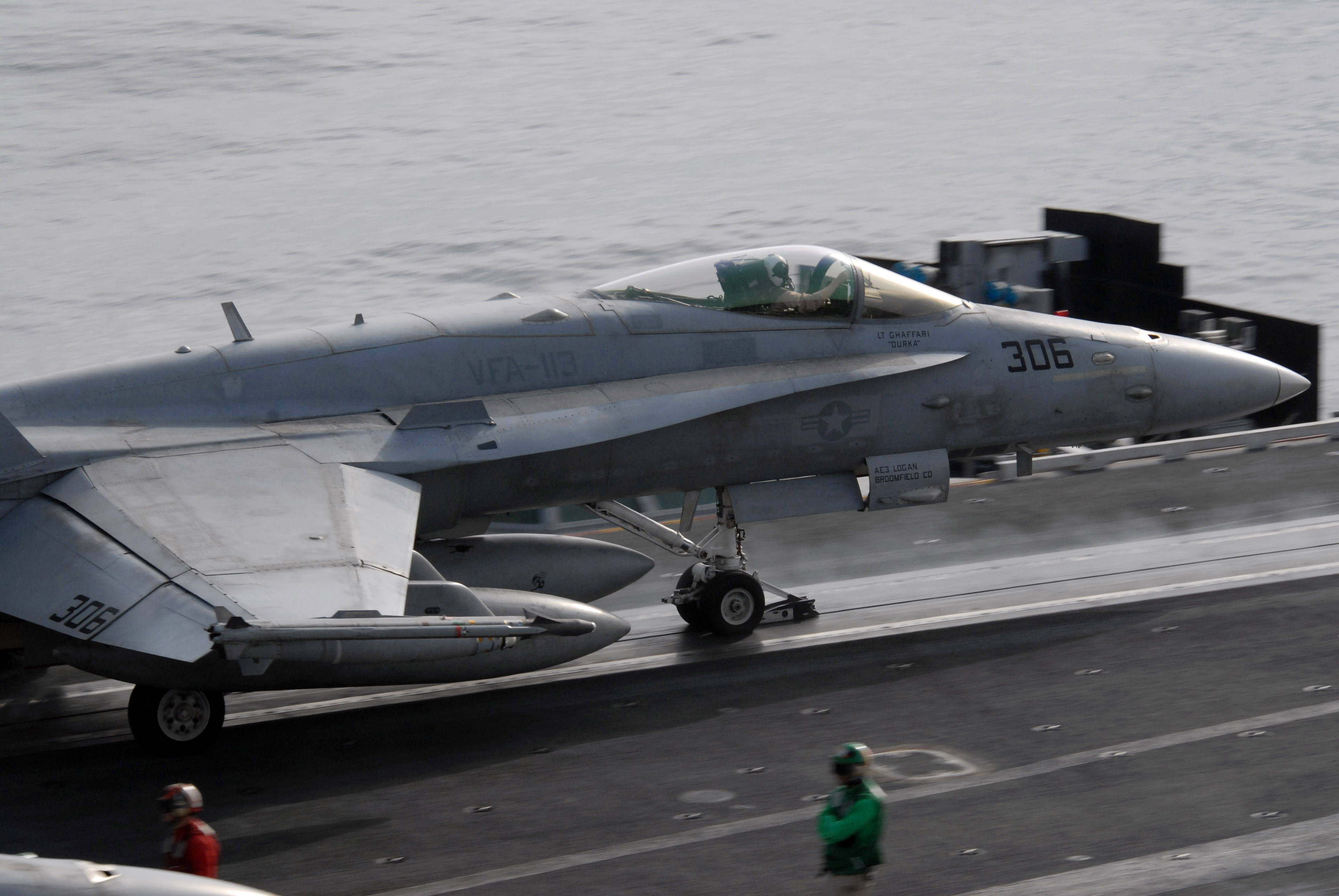 INDIAN OCEAN (August 28, 2008) An F/A-18C Hornet assigned to the "Stingers" of Strike Fighter Squadron (VFA) 113 launches from the flight deck of the Nimitz-class aircraft carrier USS Ronald Reagan (CVN 76). Ronald Reagan is deployed to the U.S. 5th Fleet area of responsibility. (U.S. Navy photo by Mass Communication Specialist 3rd Class Aaron Holt/Released)